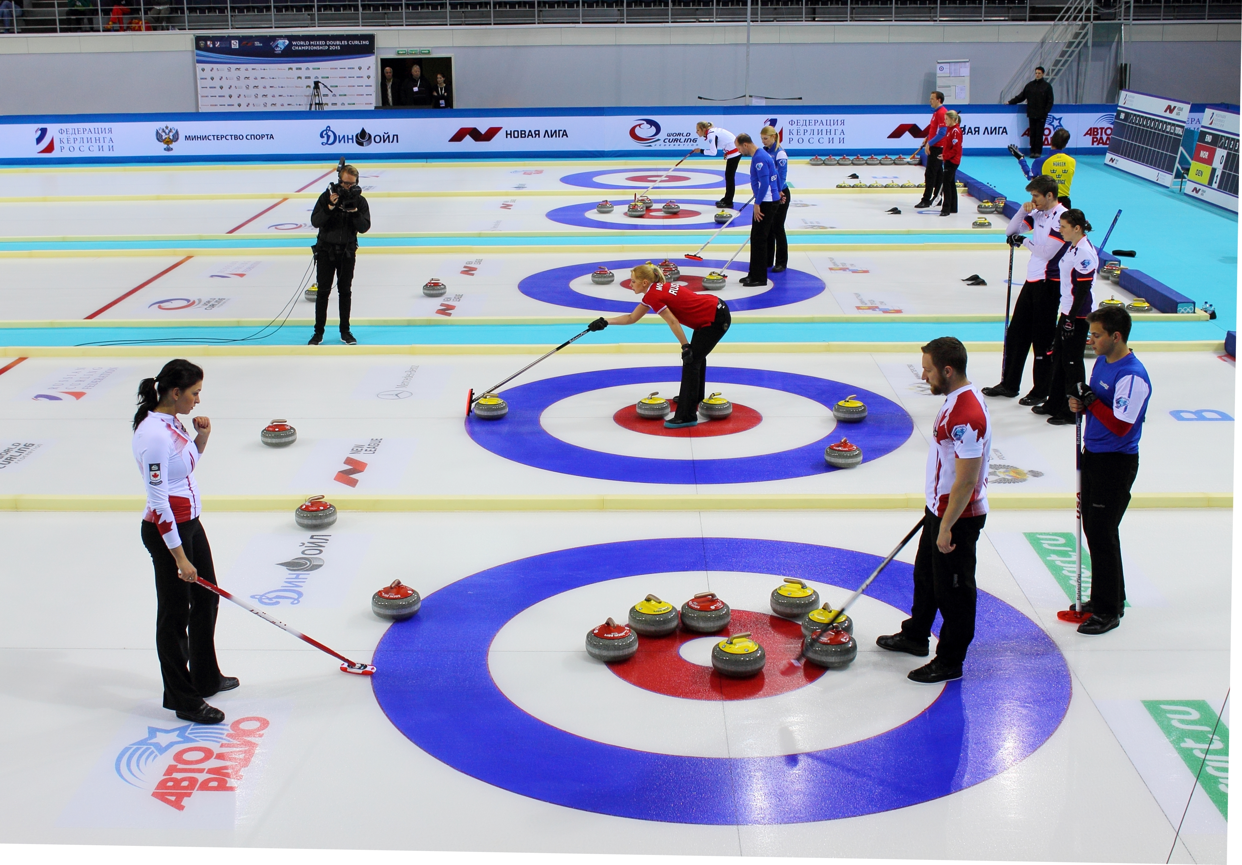 1/4 finale World Mixed Doubles Curling Championship 2015 in Sochi